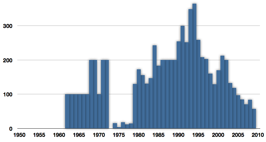 Fisheries recorded capture of wild short-finned eel (Anguilla australis) from 1950 to 2009. Based on data sourced from the FishStat database, FAO.